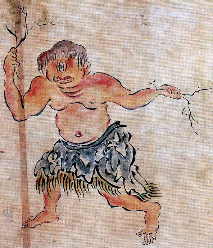 Yamawaro (山童, Hairy one-eyed spirit) from Bakemono Emaki (化物絵巻)